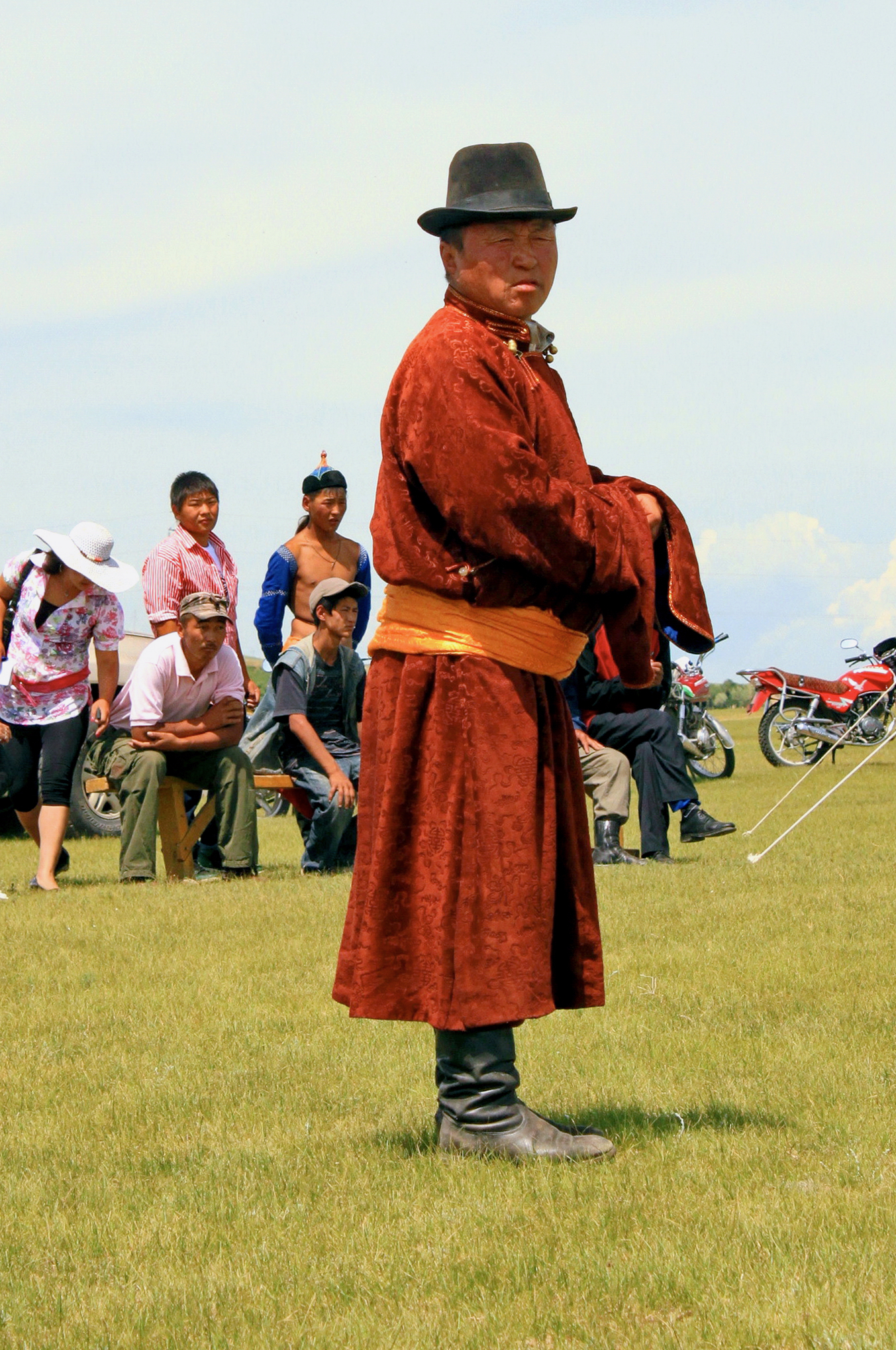 Judge in traditional Mongolian costume (deel) at the local Naadam festival. Kharkhorin, Övörkhangai Province, Mongolia.